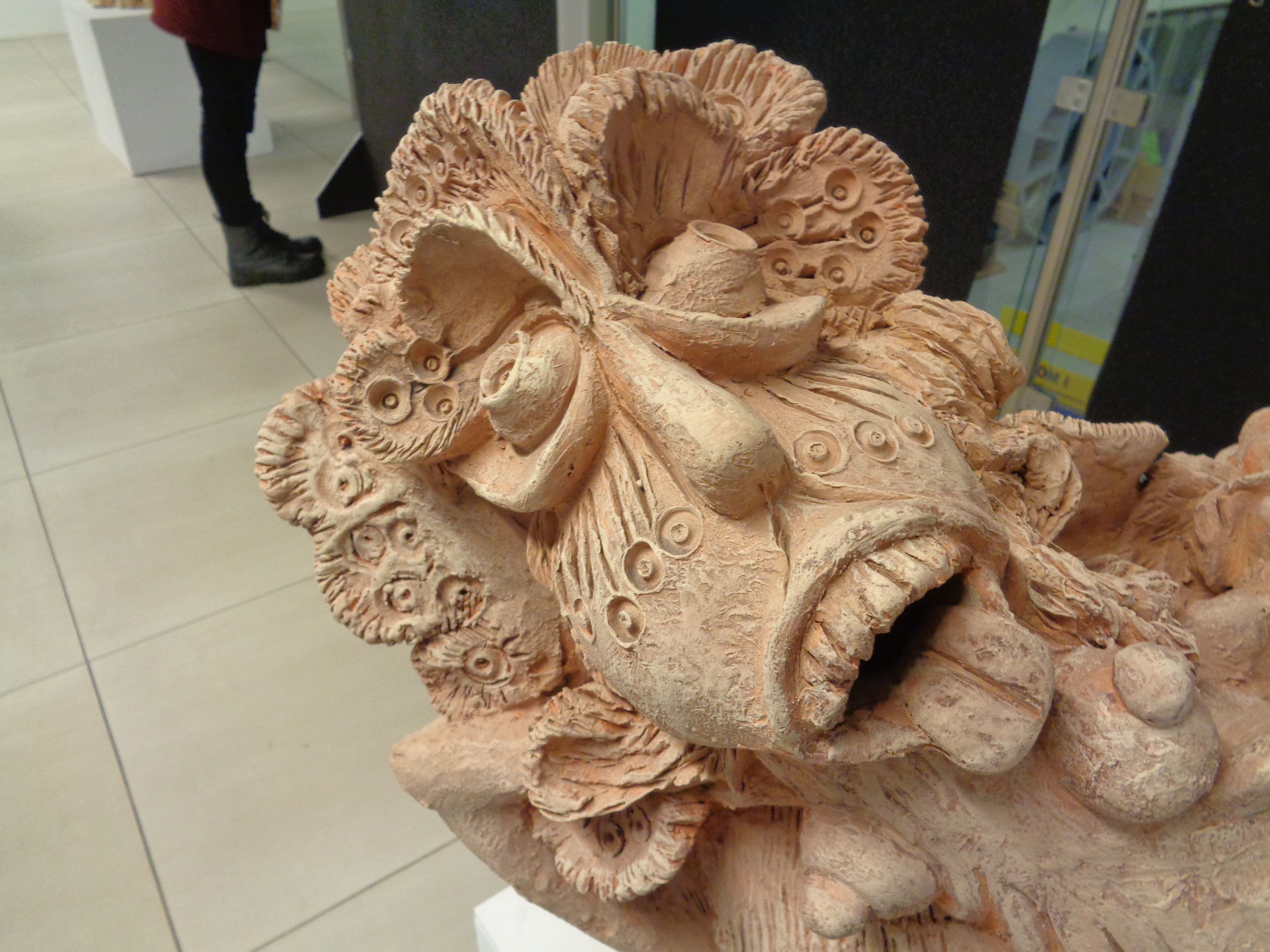 Sculpture by Stanisław Zagajewski on exhibition "Nikifor versus Zagajewski" in Antresola (Entresol) Gallery in Culture Centre Brewery B, in occasion of Stanisław Zagajewski year.